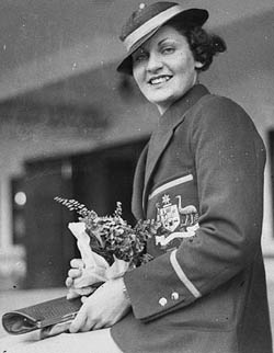 Clare Dennis, Olympic champion Australian swimmer of the 1930s